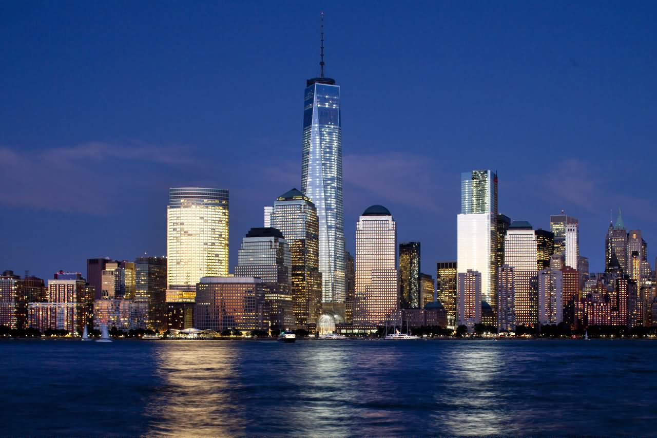 the world trade center